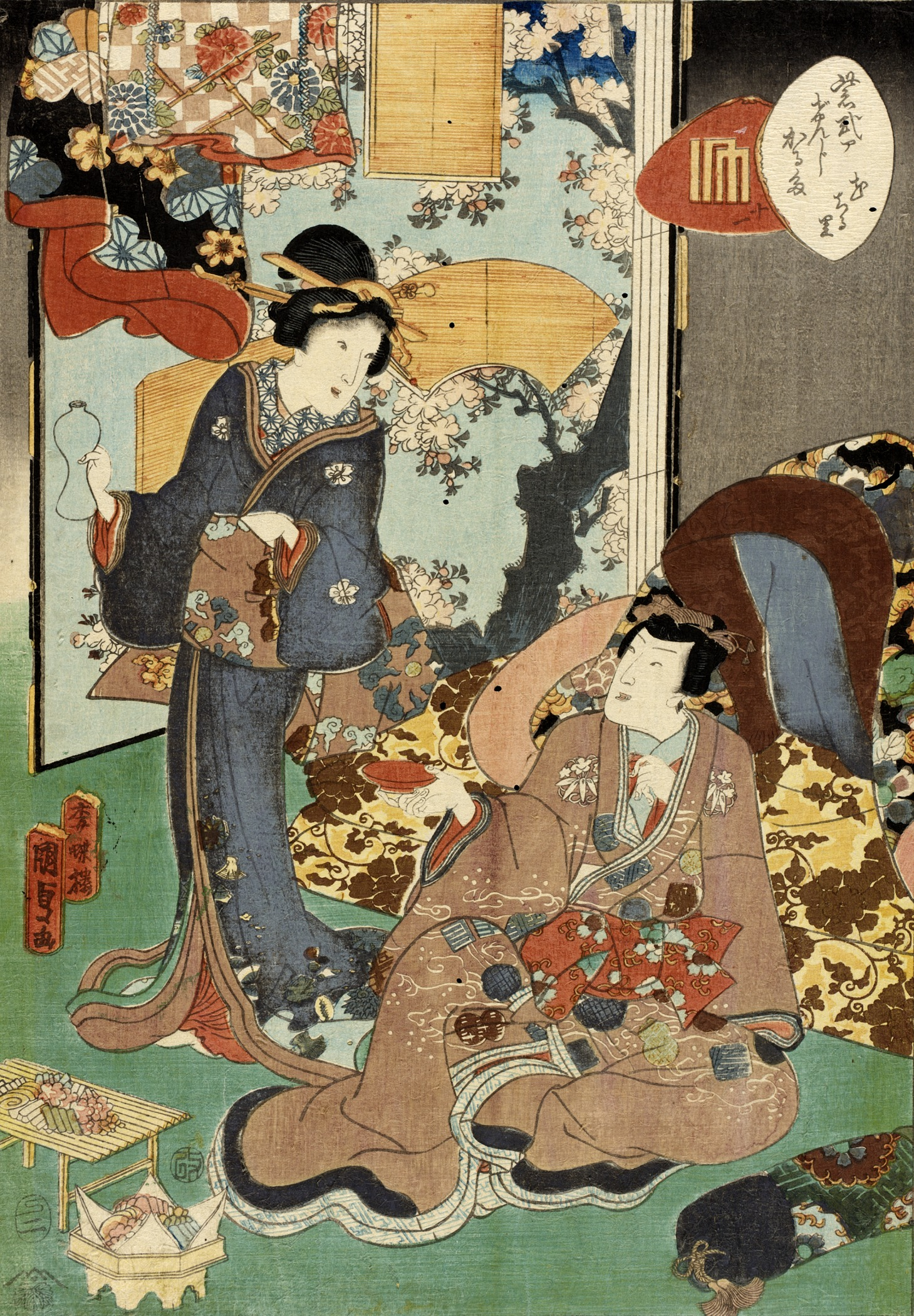 Japan, 1/1857 Series: Playing Cards from Murasaki Shikibu's Genji, number 11 Prints; woodcuts Color woodblock print Sight: 13 1/4 x 8 1/4 in. (33.66 x 20.96 cm); Frame: 19 1/2 x 14 1/8 in. (49.53 x 35.88 cm) Gift of George T. and Margaret W. Romani (M.2000.42.4) Japanese Art